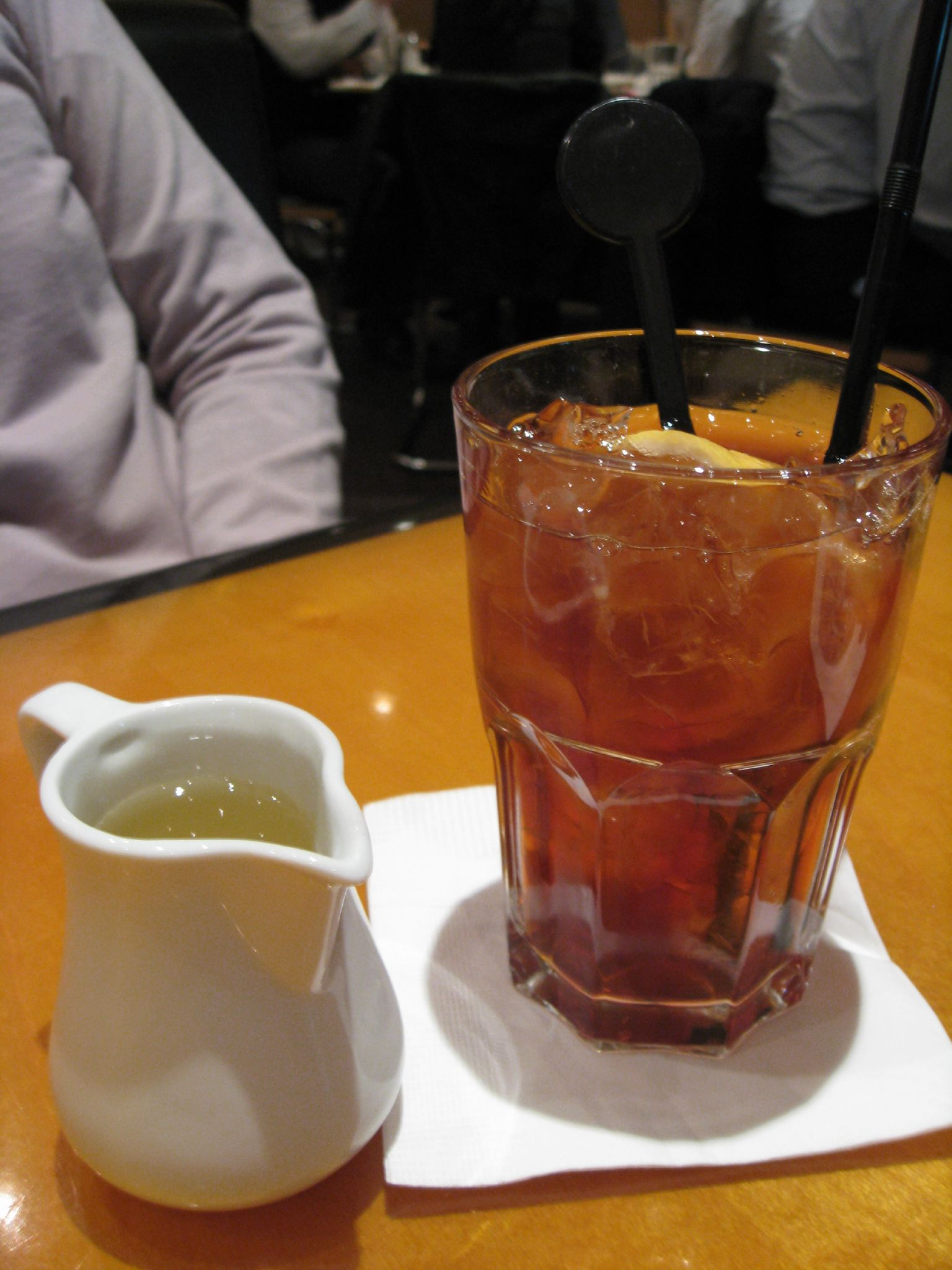 Iced lemon tea